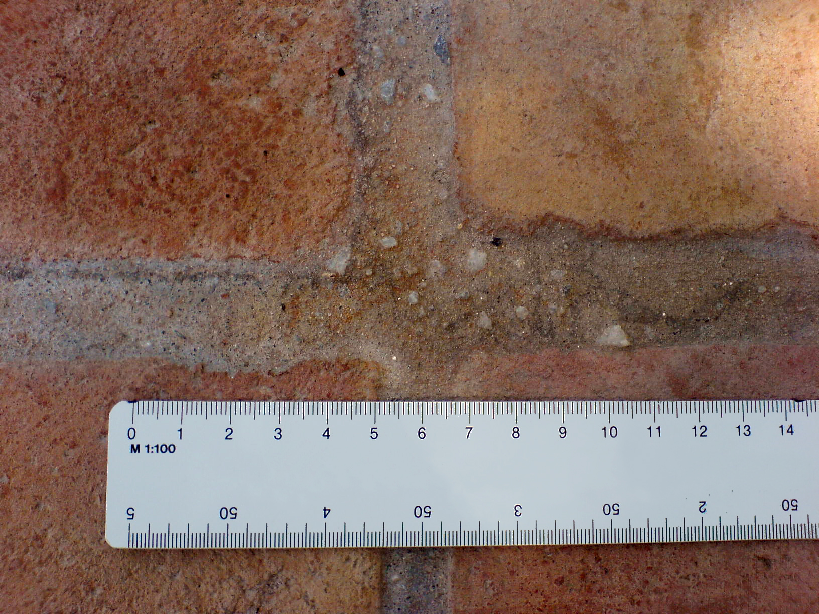 Brickwork bond: Mortar with fine gravel as aggregate